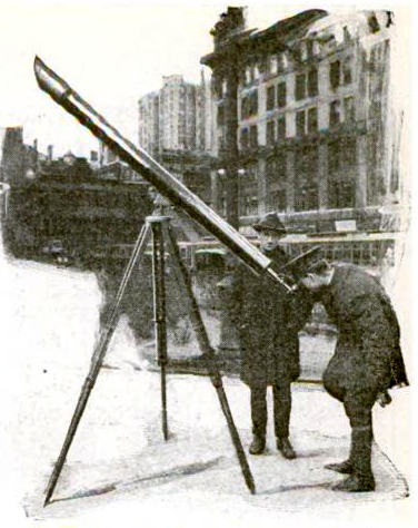 "On forty-second street in New York, Joseph G. White shows the new comet or the planets through his 4 1/2 inch refracting telescope."